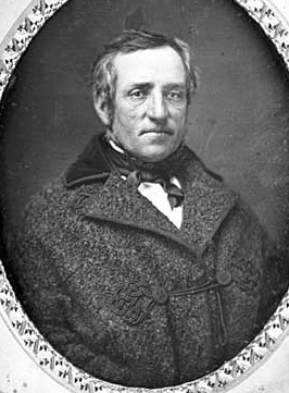 Dr.Thomas R. Potts, founder of Minnesota Medical Association and first mayor of St. Paul, Minnesota.